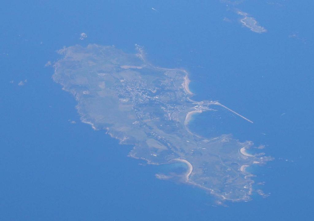 An aerial shot of the islands of Alderney (centre) and Burhou (upper right) in the Channel Islands. I took the image on Sunday August 21, 2005 during a commercial flight between London Stansted and La Rochelle.